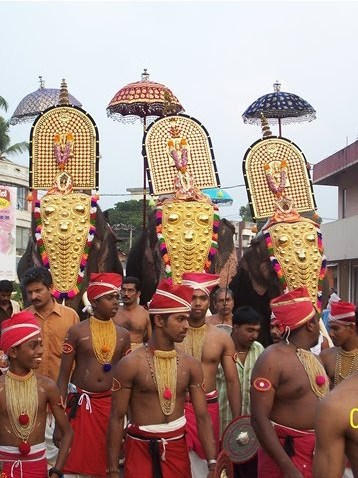 Vazhappally Temple Arattu Ceremony & Velakali